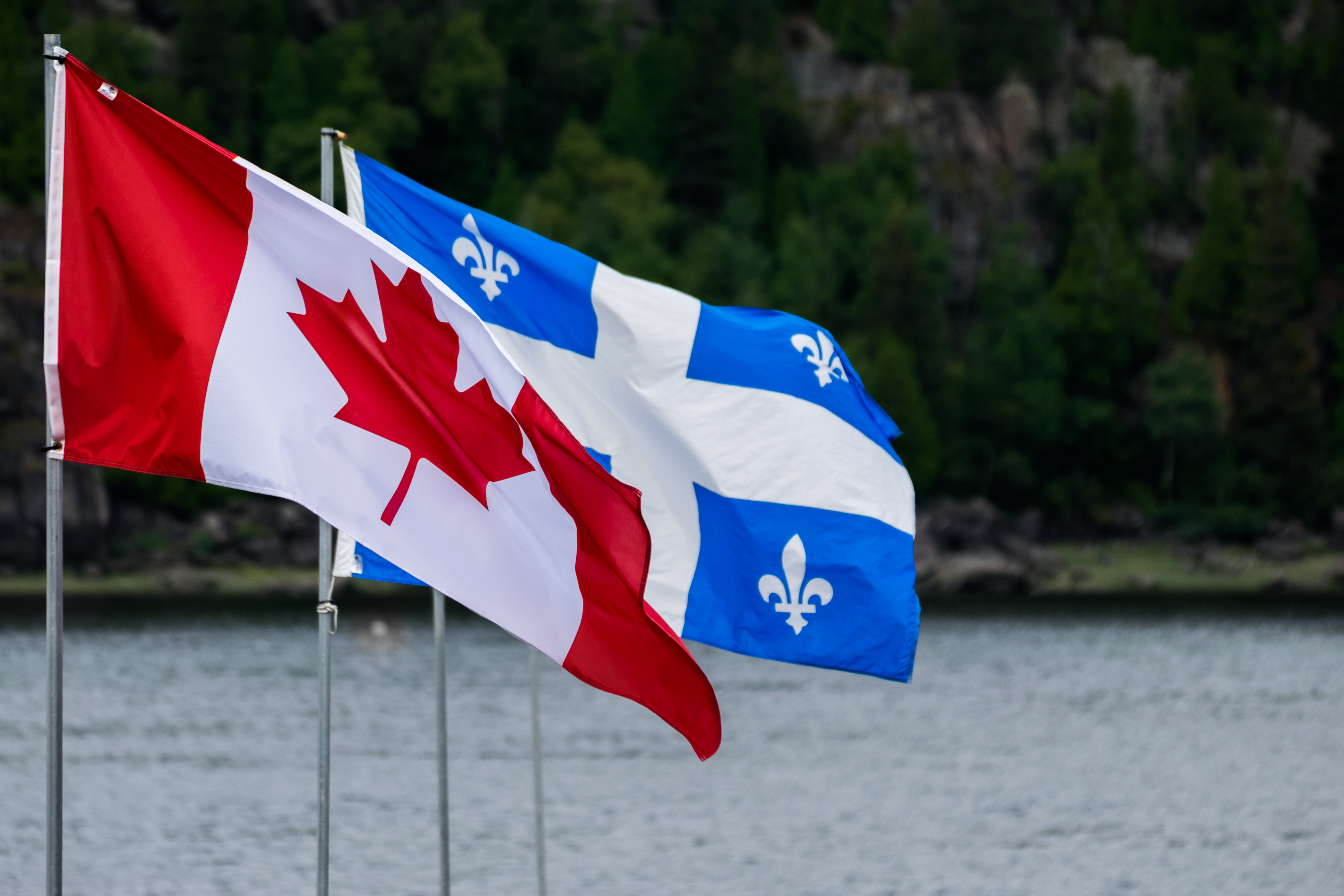 The flag of Canada, the Flag of Quebec and the flag of Saguenay–Lac-Saint-Jean seen at Chicoutimi along the Saguenay River, Quebec, Canada.